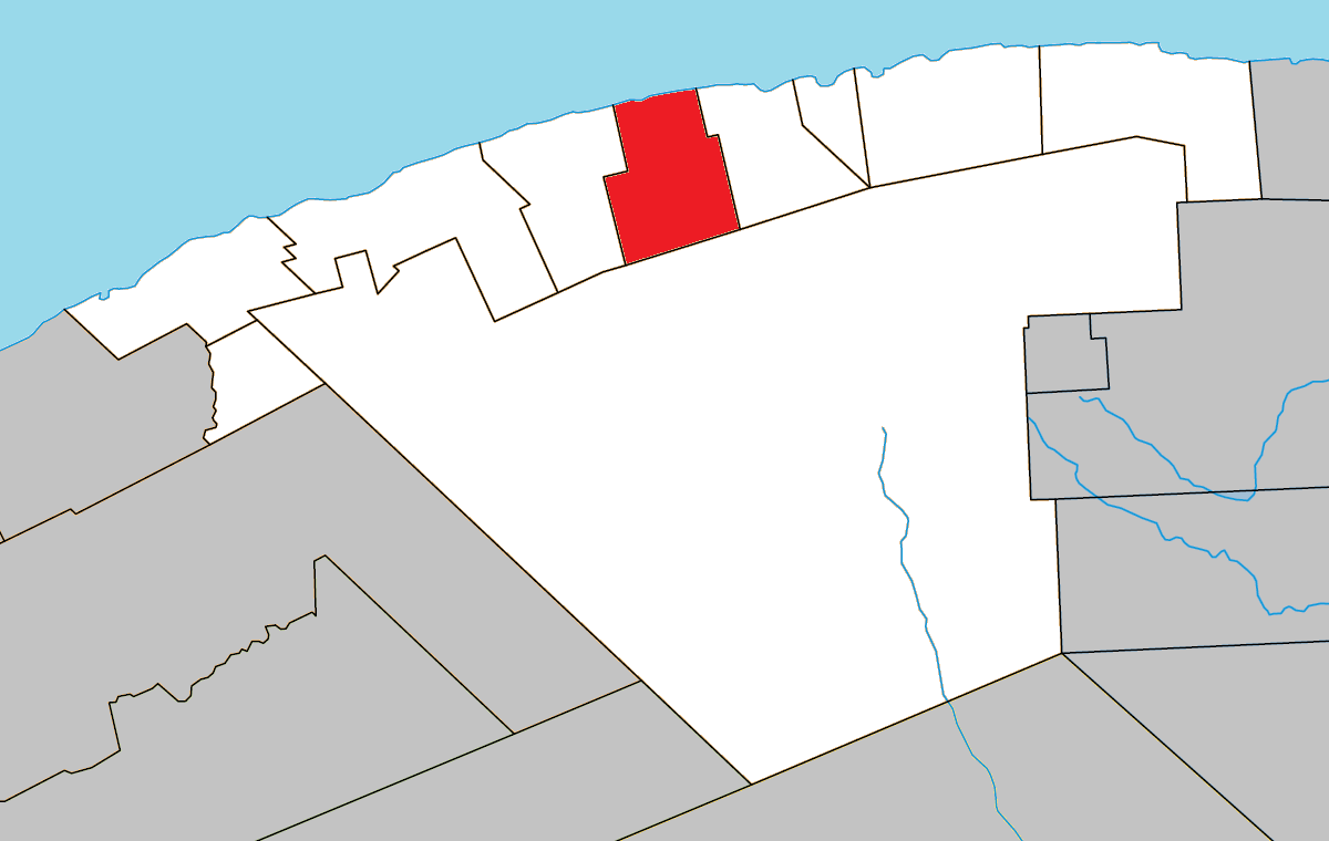 Location of Marsoui, Quebec within La Haute-Gaspésie Regional County Municipality.